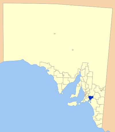 Map of South Australia showing the location of the Murray Bridge Local Government Area. A modification of GDFL map by Astrokey44; found here: File:SA_LGA_blank.png